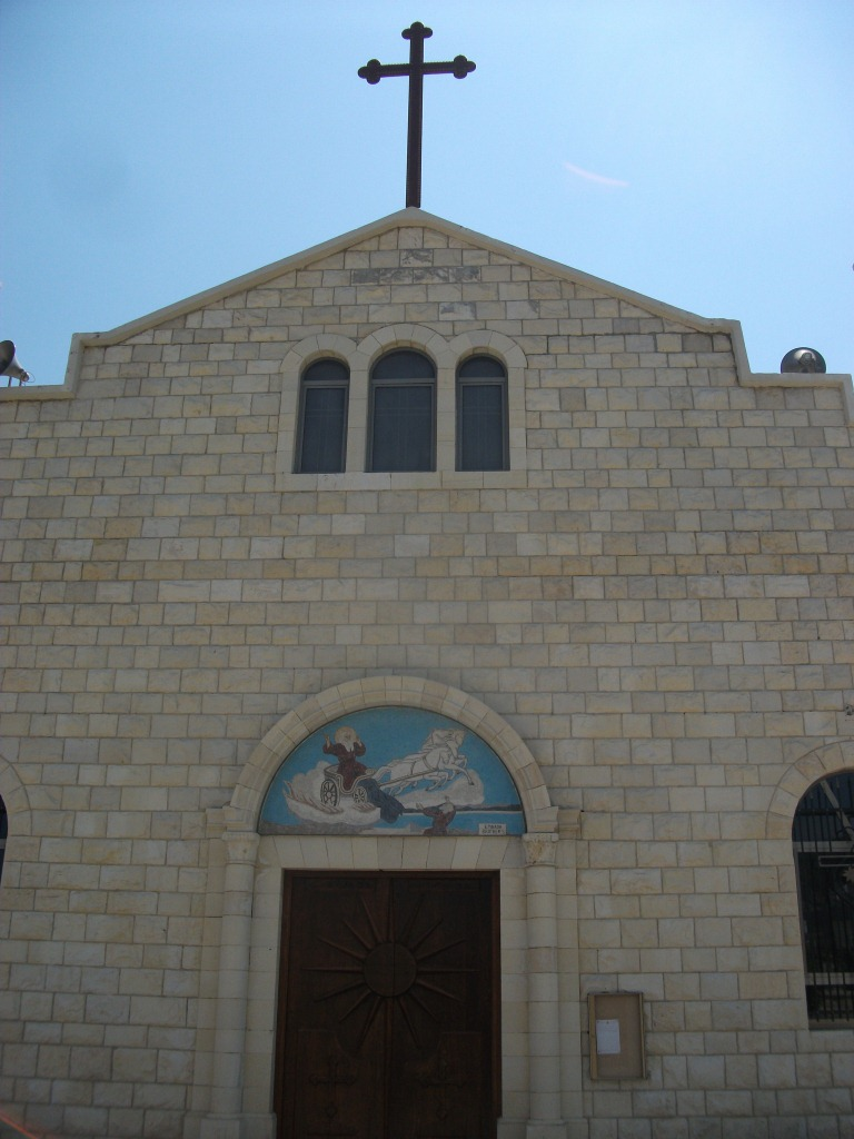 Haifa, Melkit Church St. Elias